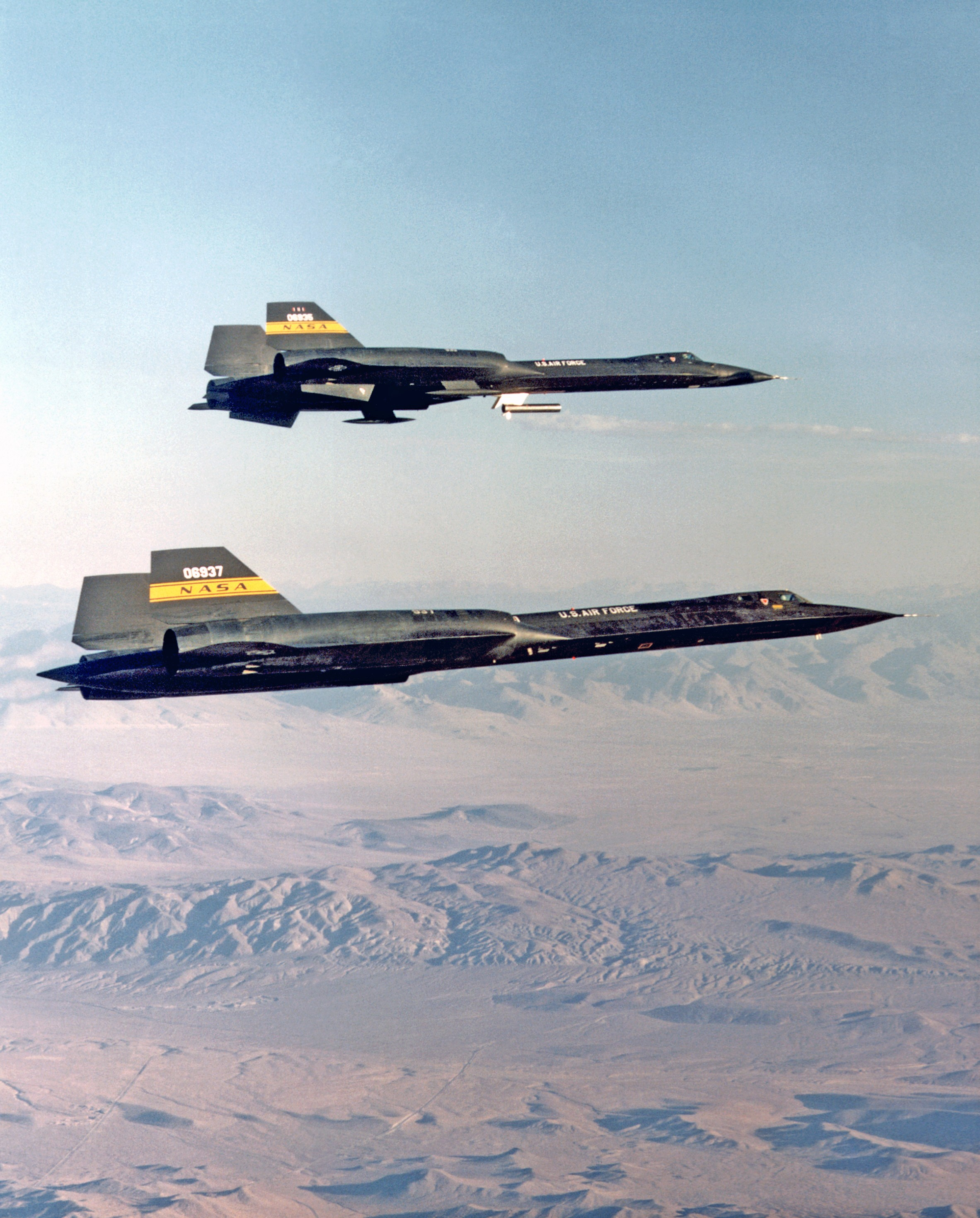 Two YF-12 aircrafts (#06935 & #06937) in flight.